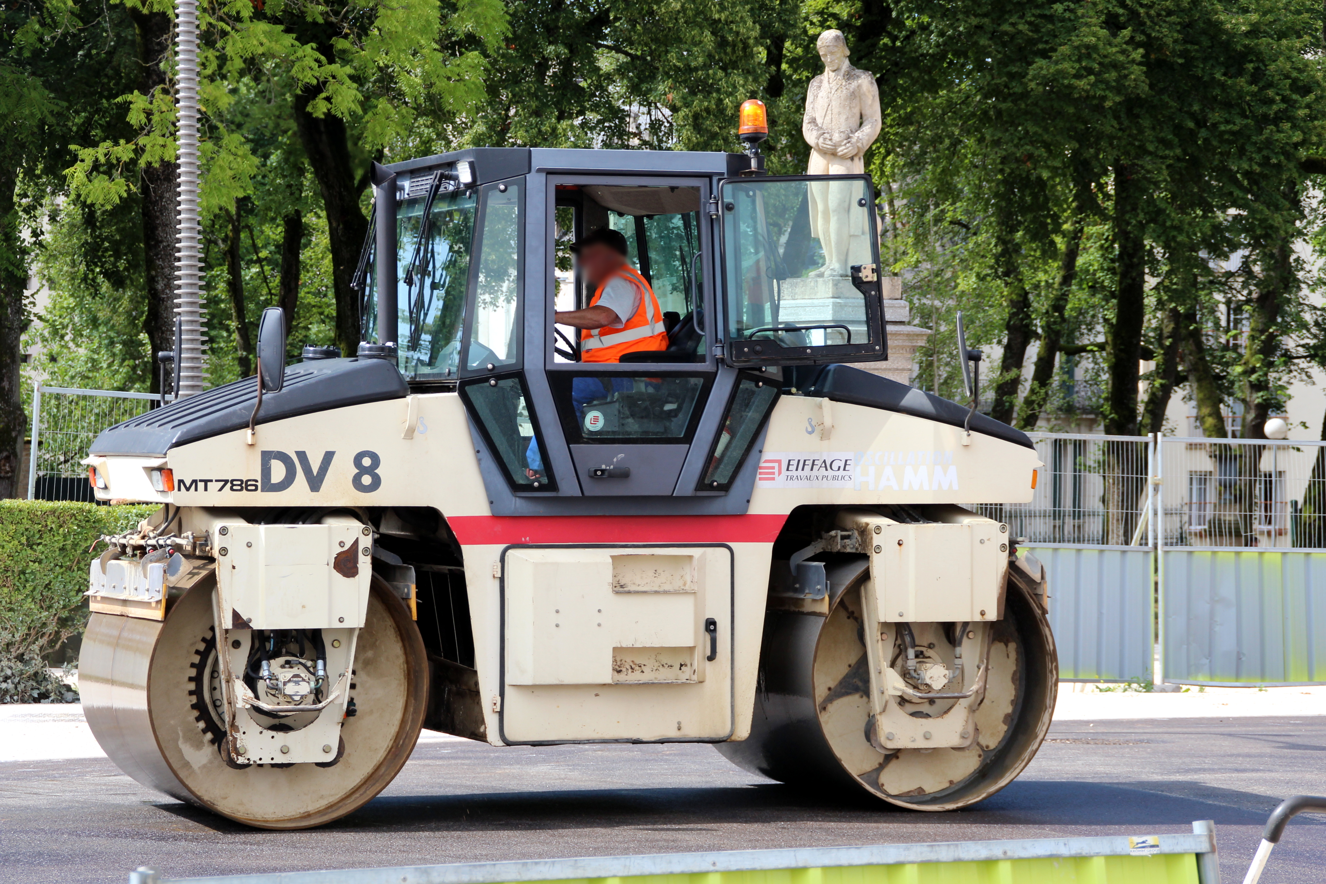 Requalification work at Central Station in 2013 in Chaumont, Haute-Marne, France.